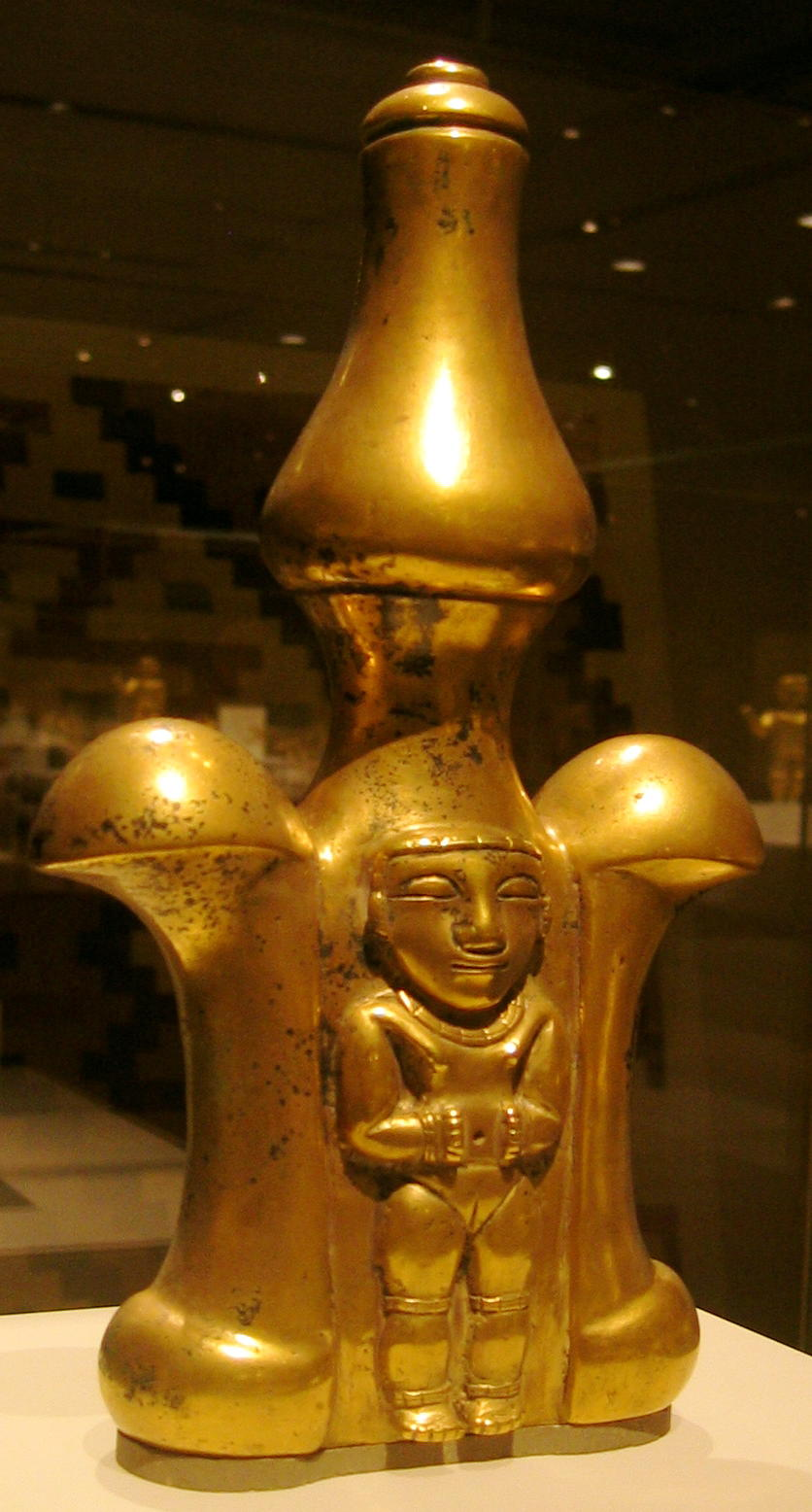 Lime Container (Poporo), 1st–7th century AD; from Colombia; Quimbaya Cast gold; H. 9 in. (22.9 cm) Jan Mitchell and Sons Collection, Gift of Jan Mitchell, 1991 (1991.419.22) Location: Metropolitan Museum of Art, New York In Andean South America, there is an indigenous tradition for the ritual use of coca leaves. In Precolumbian times, the chief method of using coca was to place a quid of leaves into the mouth and add a small amount of powdered lime, made from calcined seashells. Standard coca-chewing paraphernalia included a small bag for the leaves and a container and a spatula or spoon for the lime. The utensils could be quite elaborate and made of precious materials. Lime containers from Colombia, known as "poporos," were often cast in gold in the form of nude human figures or as flasks incorporating raised nude images on each side. Both figures and flasks exhibit great elegance of conception, manufacture, and finish. The shouldered bottle here, adorned on either side with a female figure, still contains powdered lime.